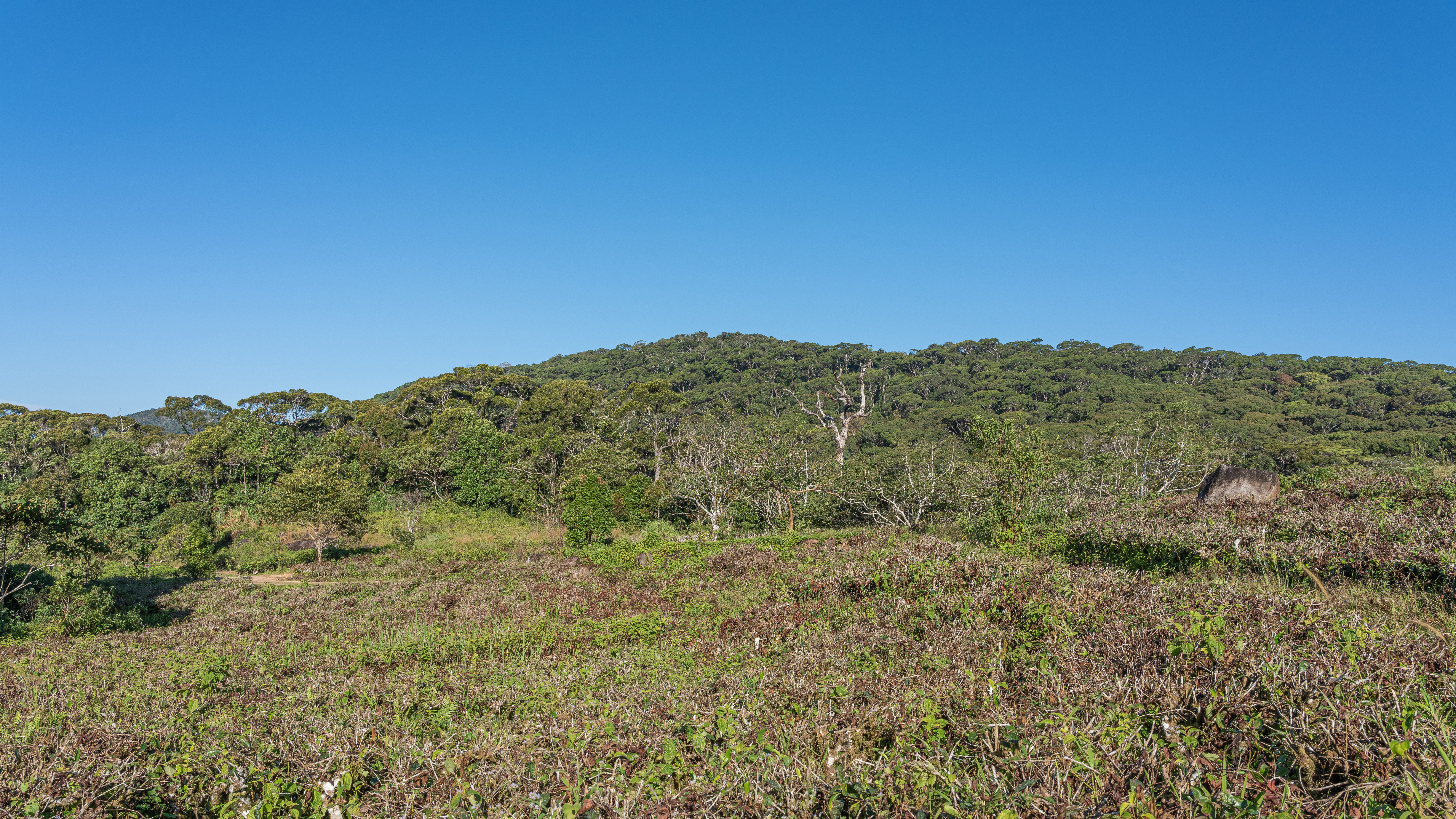 Scenic view of Sinharaja Rainforest near Deniyaya, Sri Lanka